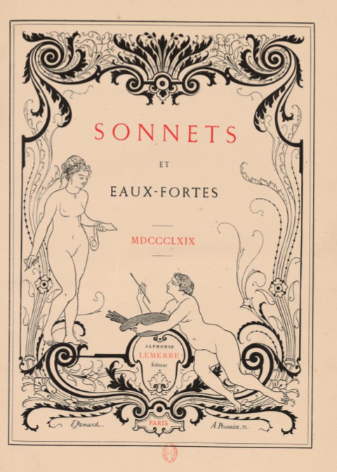 Frontispice of Sonnet et eaux-fortes, published in Paris by Philippe Burty (editor) and Alphonse Lemerre (publisher) in 1869.